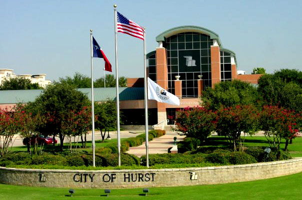 In this photo is the building of the city hall.